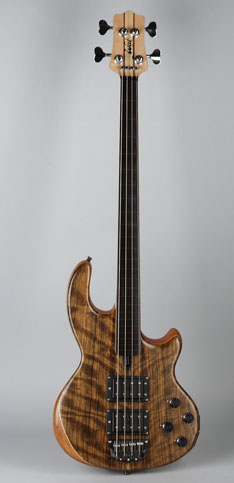 Wal Mach II fretless bass guitar